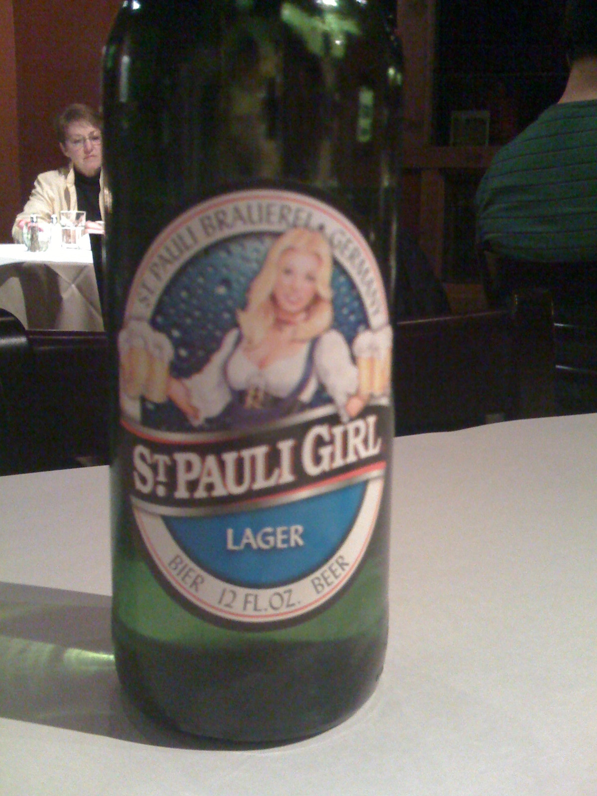 St. Pauli Girl (wearing a Dirndl), as served in US diner